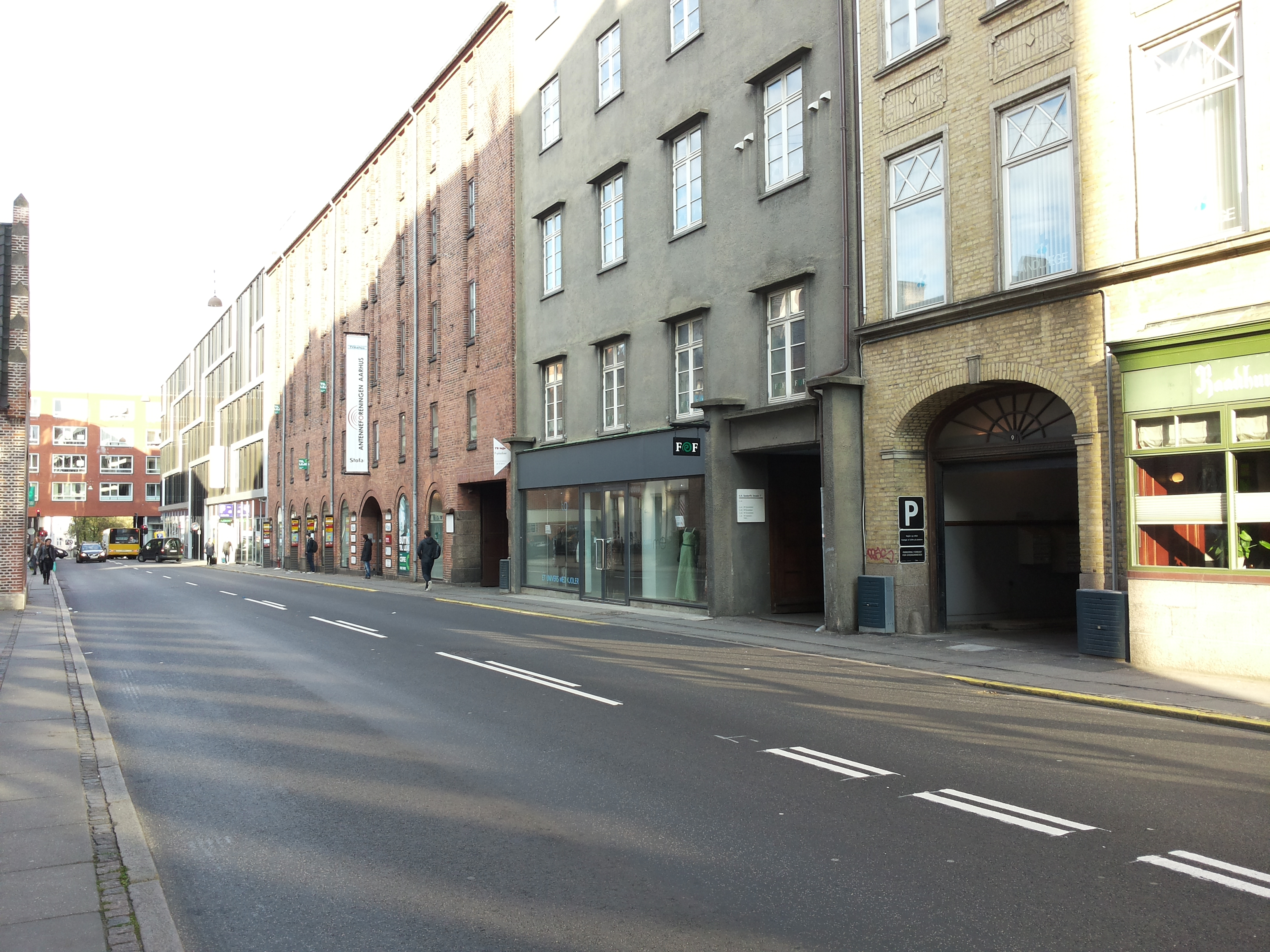 Hans Hartvig Seedorfs Stræde